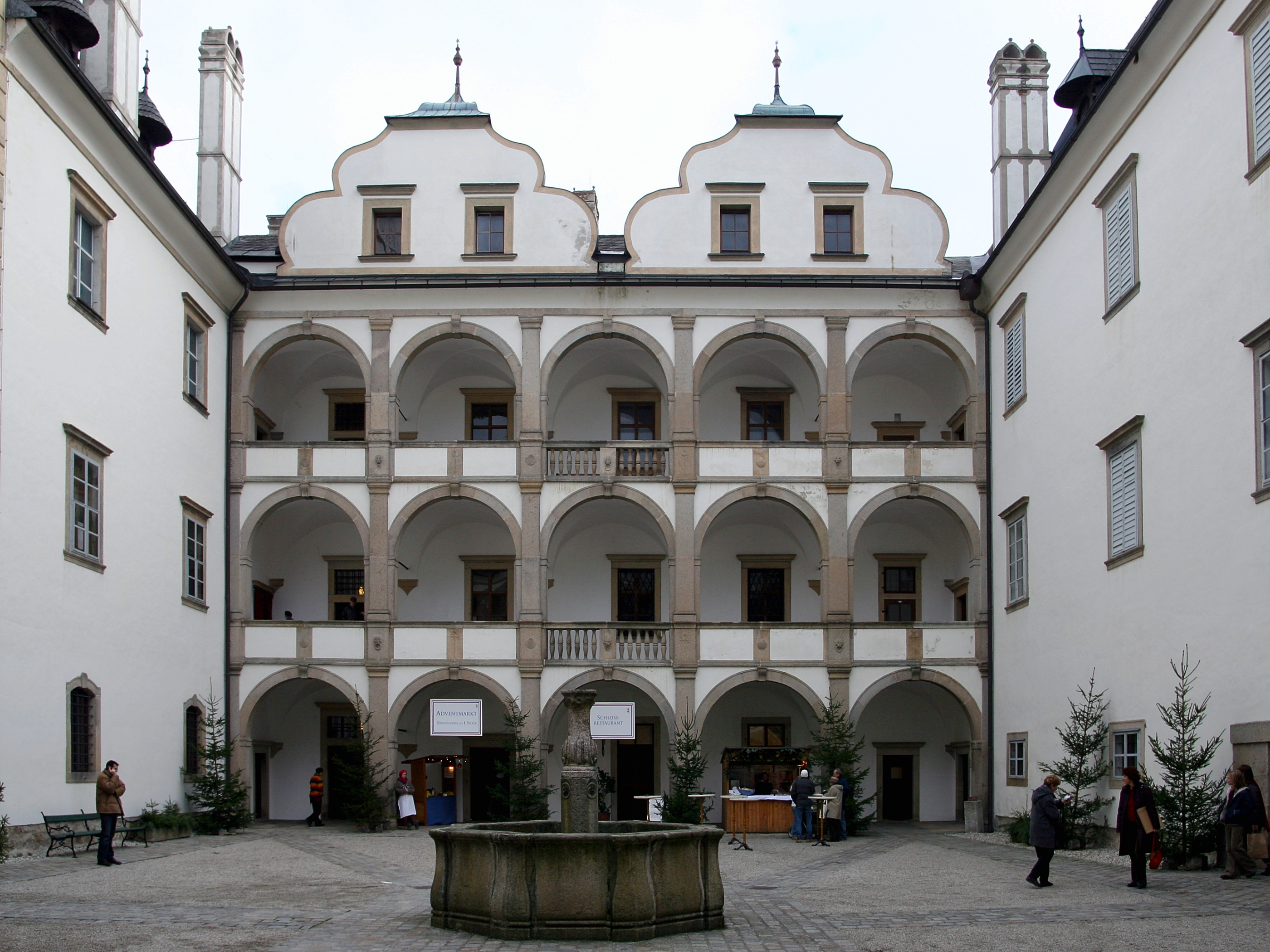 Rennaissance courtyard of Weitra castle.